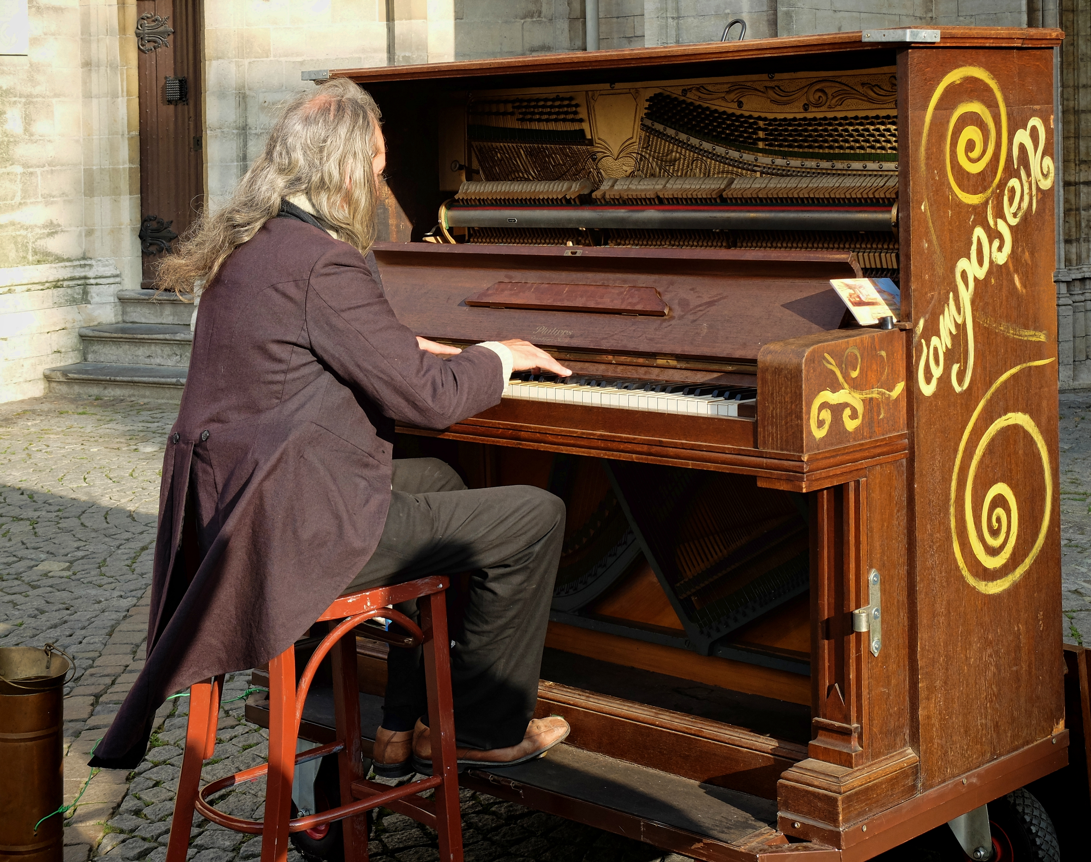 Street musician playing on a Phillips pianola, made in Frankfurt Mainz Location: Handschoenmarkt in Antwerp